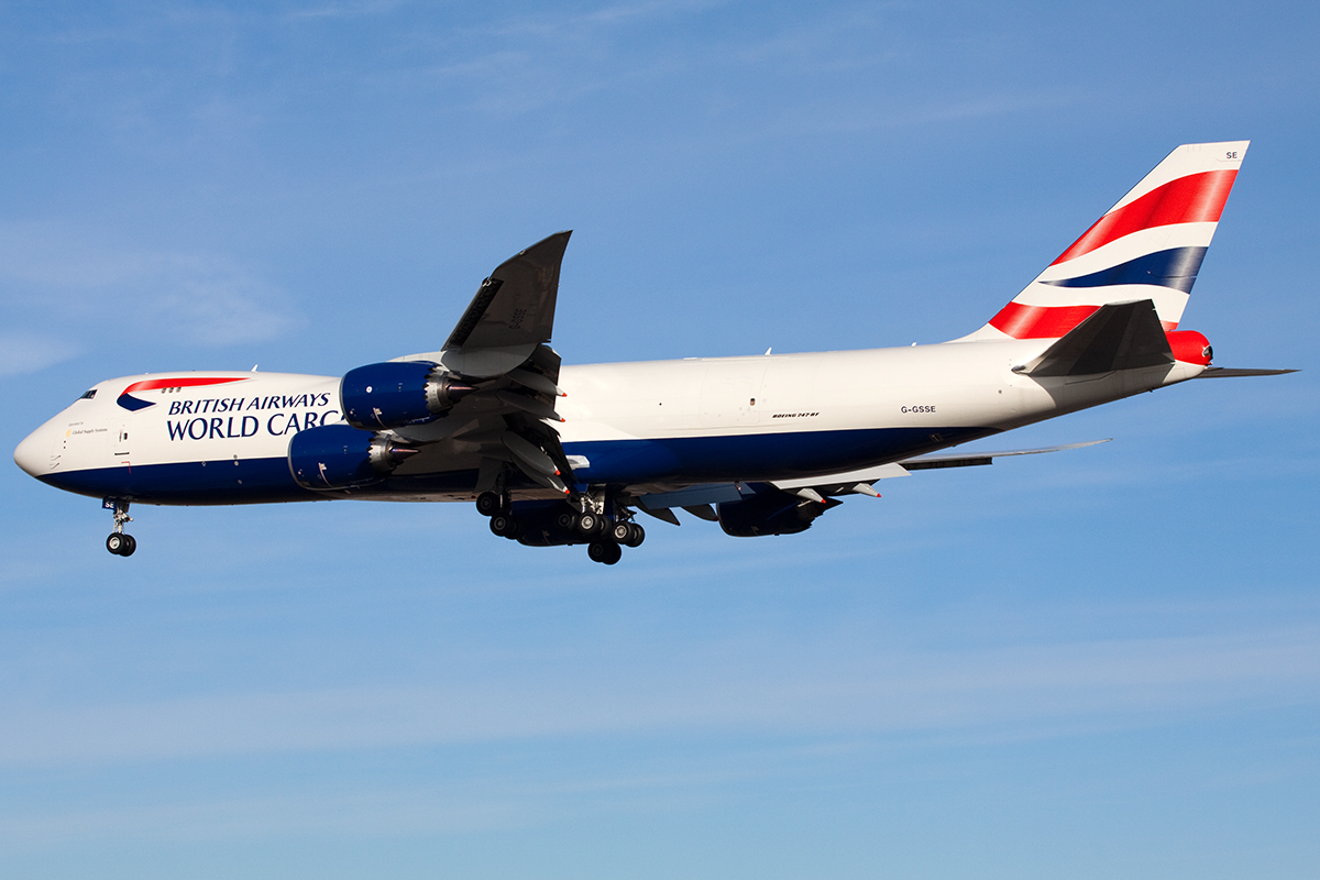 British Airways World Cargo Boeing 747-8F (G-GSSE) at Chicago - O'Hare International Airport.